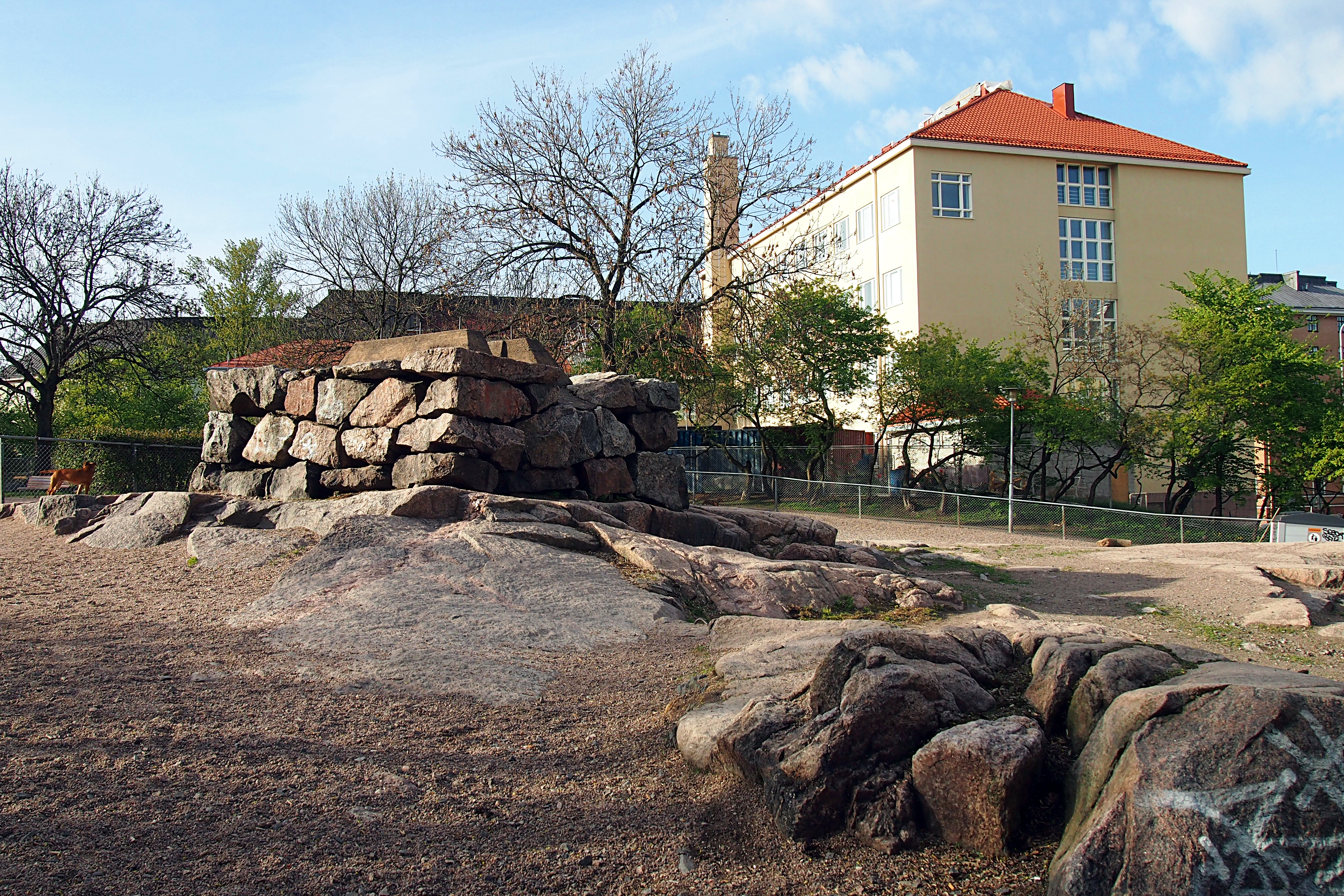 The park Pengerpuisto in Kallio, Helsinki, Finland.